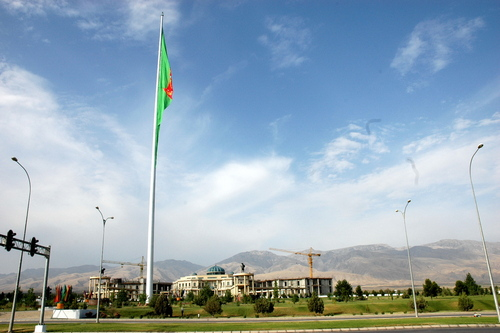 Aşgabat Flagpole